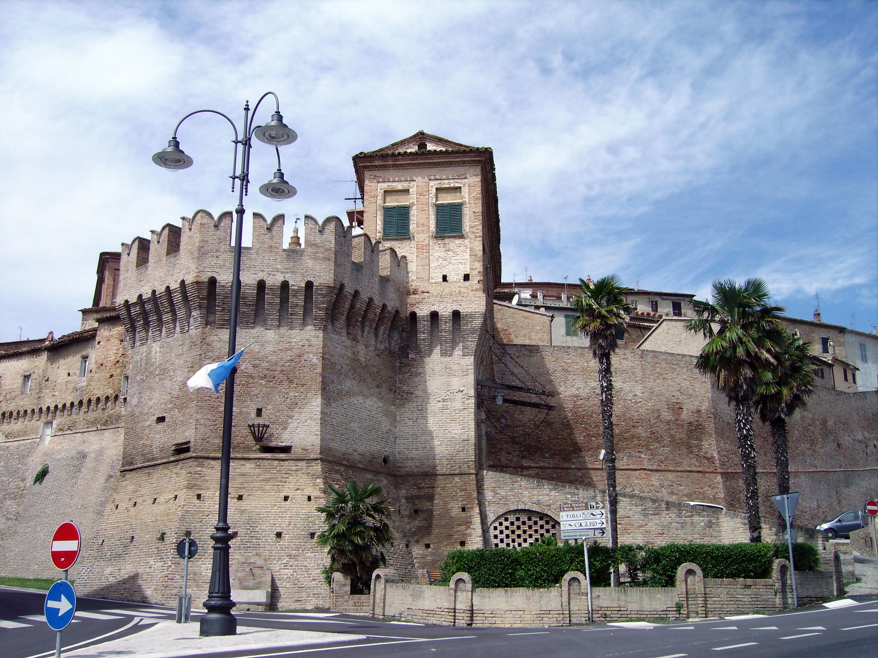 The town